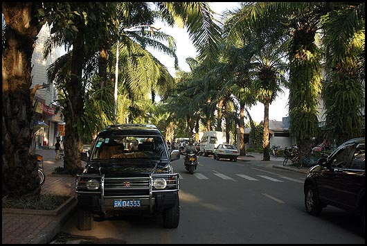 A shady street scene, Jinghong, Yunnan, China. (Photographer: prat, 2004-11-20).